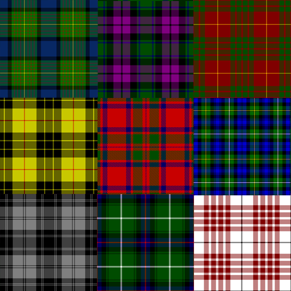 A montage of Scottish tartans of various clans.